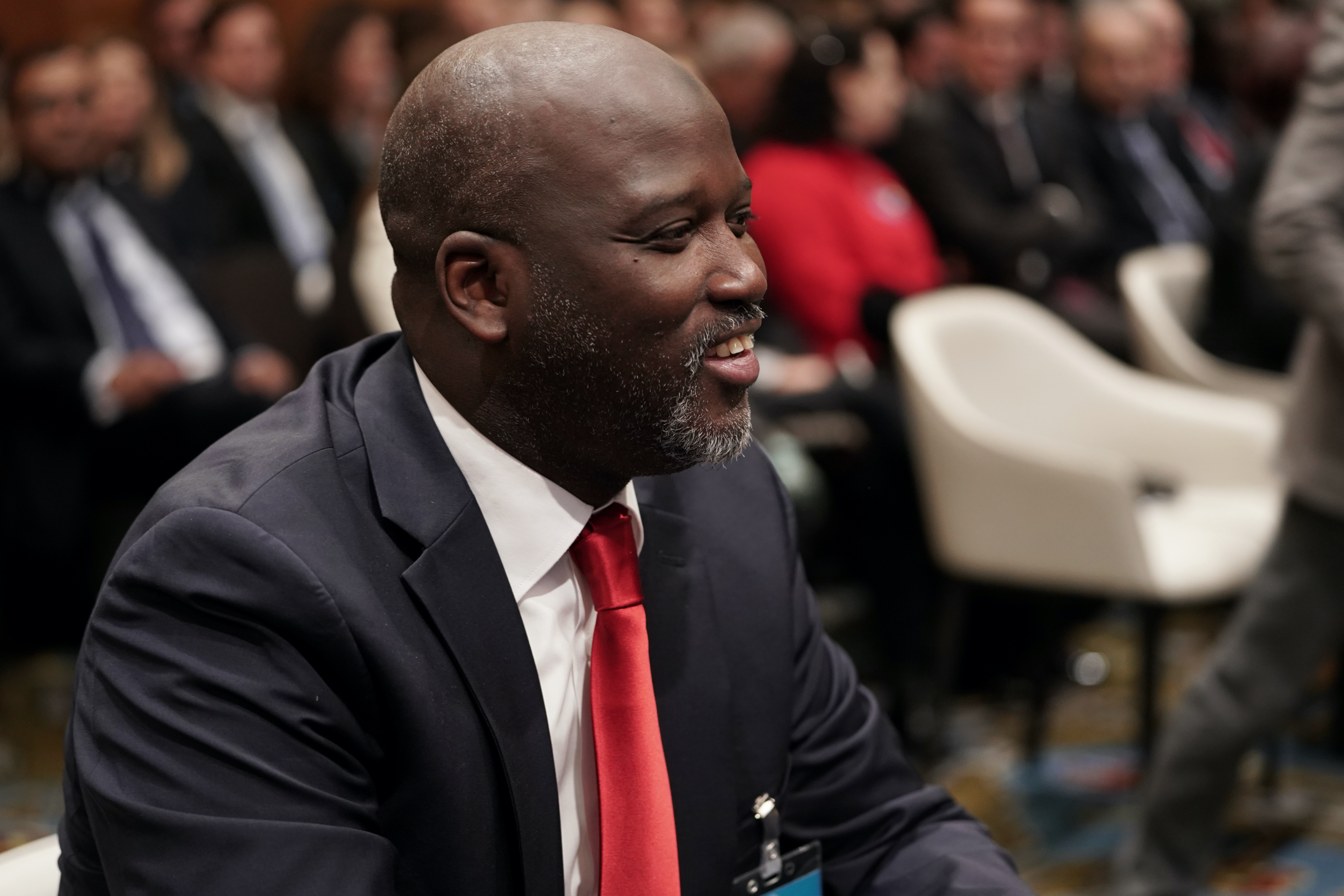 Abubaccar Tambadou, Minister of Justice and Attorney General, The Gambia in his role as Agent for The Gambia at the International Court of Justice on the day the court delivered its Order on the Request for the indication of provisional measures submitted by the Republic of The Gambia in the case concerning Application of the Convention on the Prevention and Punishment of the Crime of Genocide ( The Gambia v Myanmar). The Hague, Netherlands